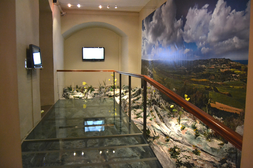 Cart Ruts Hall at the National Museum of Archaeology in Valletta, Malta